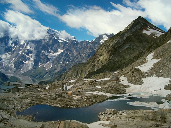 Passo Monte Moro Picture taken and edited by user user:Idéfix august 2005